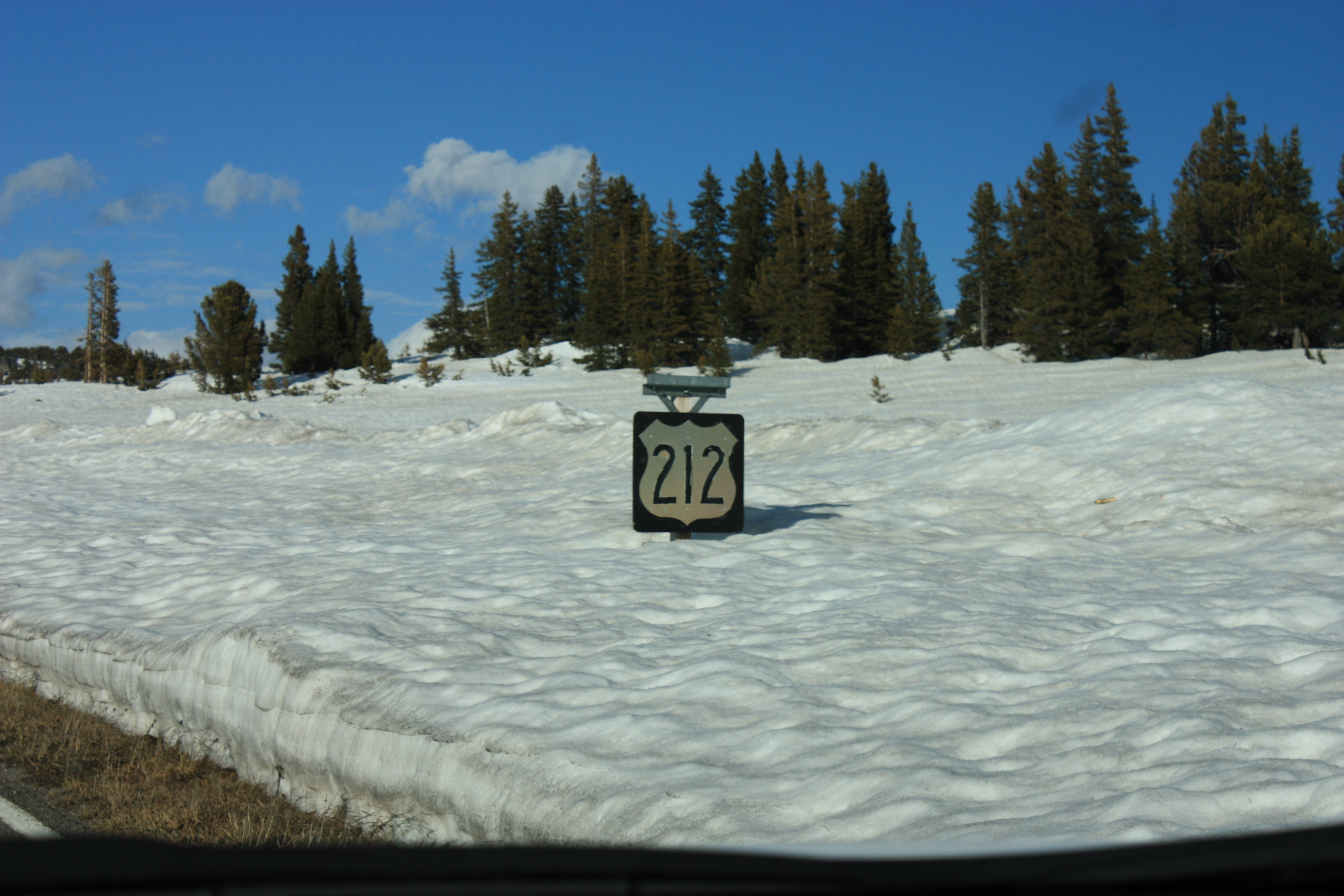 Photo of U.S. 212 sign in late May 2009 nearly buried in snow.